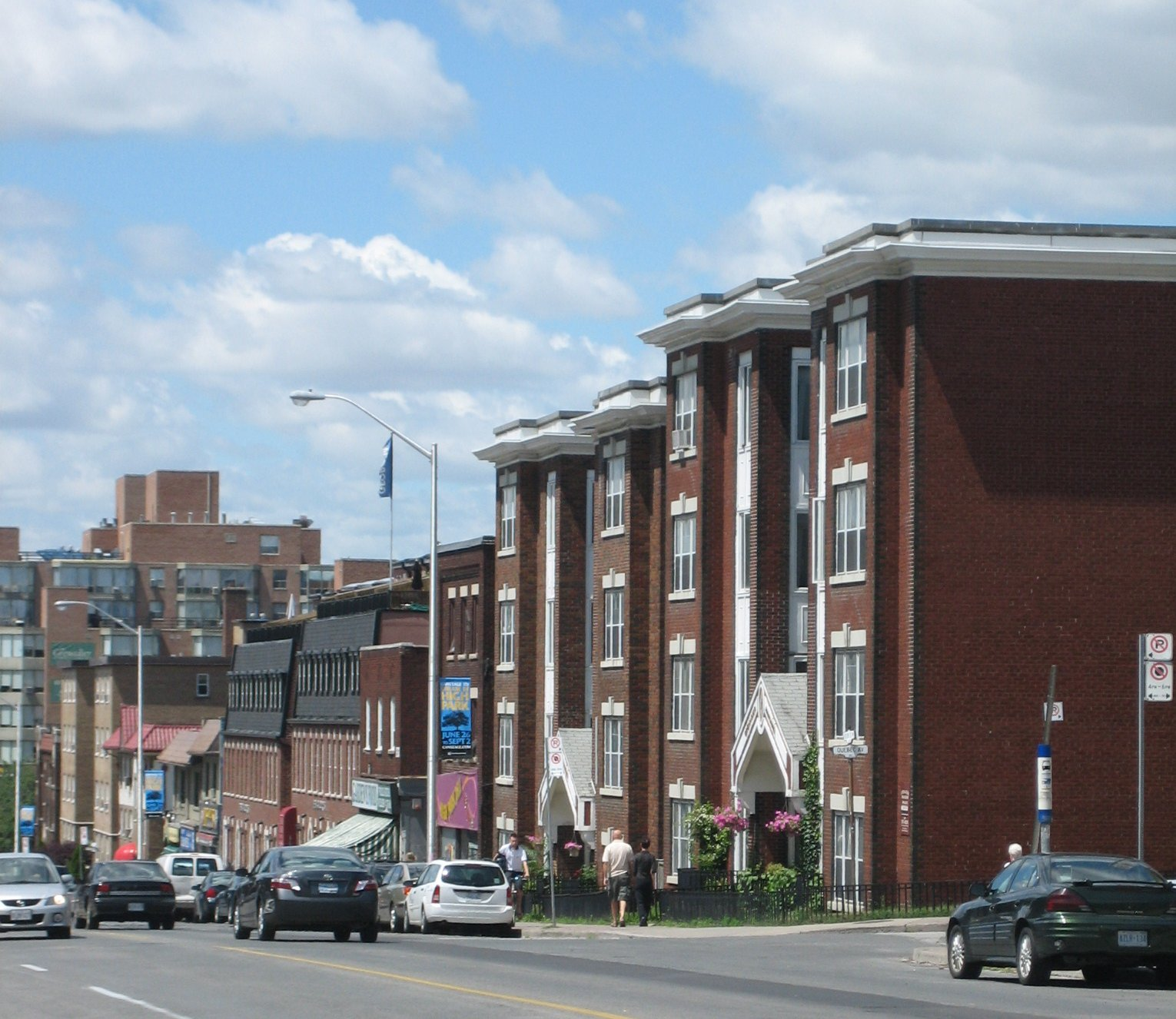 Bloor Street by High Park